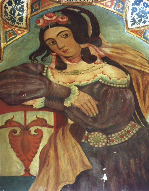 Wall paint of Dr, Hariri house - Tabriz.